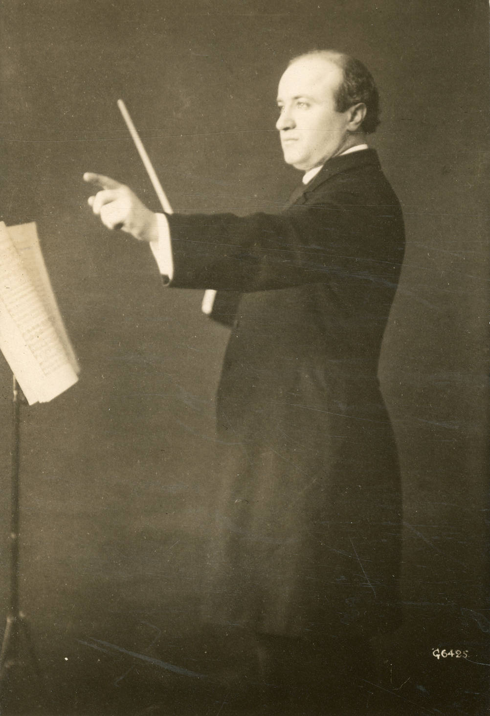 Modest Altschuler, Russian symphony orchestra conductor Subjects: musicians